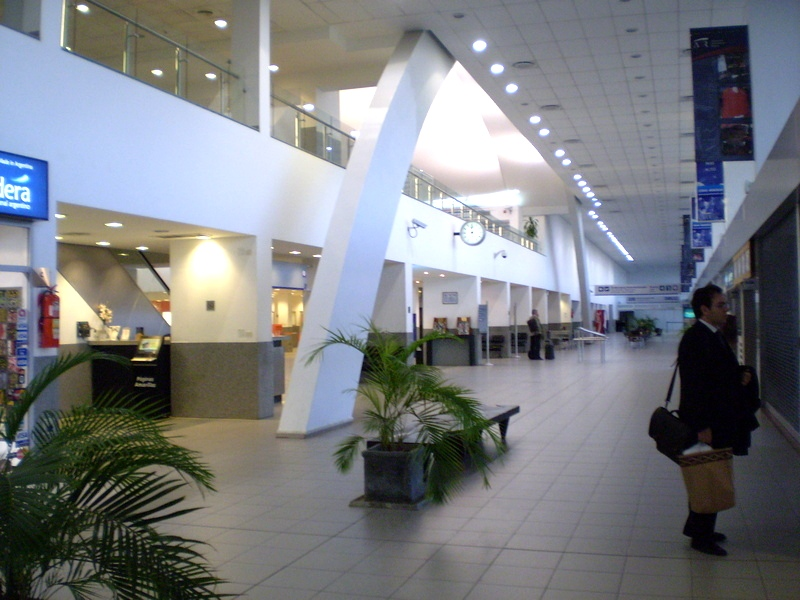 Commercial corridor of the airport "Aeropuerto Internacional Rosario 'Islas Malvinas' (AIR)"